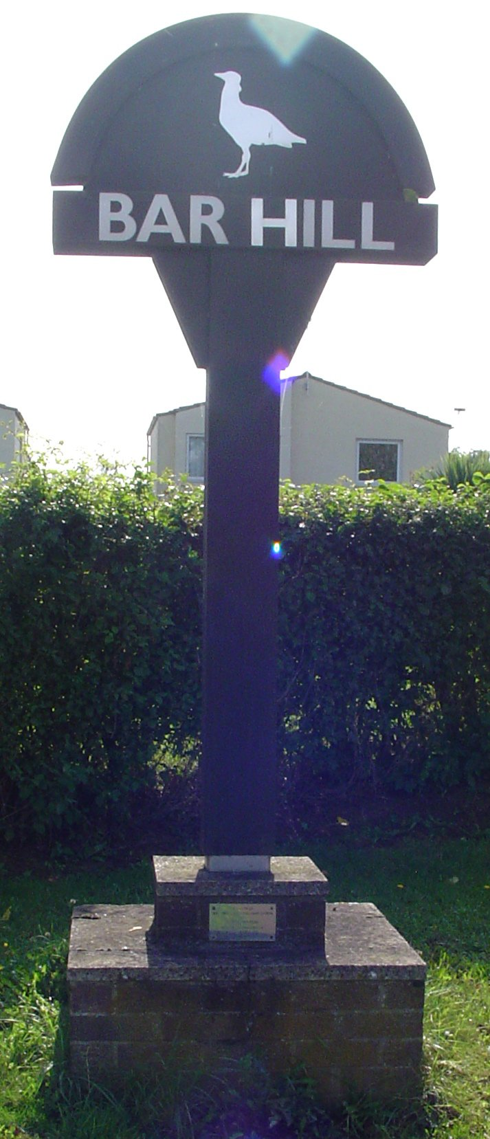 Signpost in Bar Hill